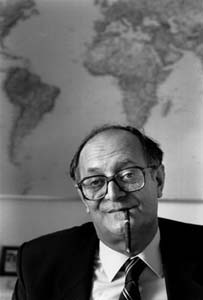 Cornelio Sommaruga